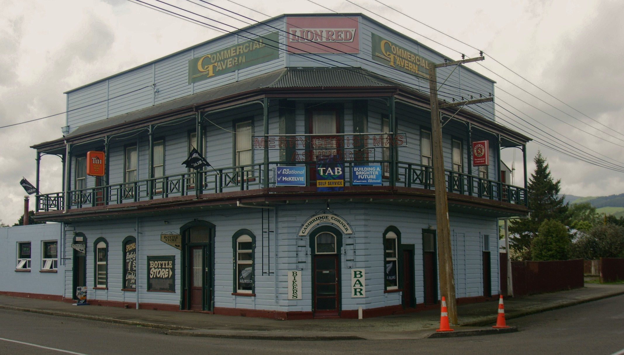 Ashhurst's Commercial Tavern